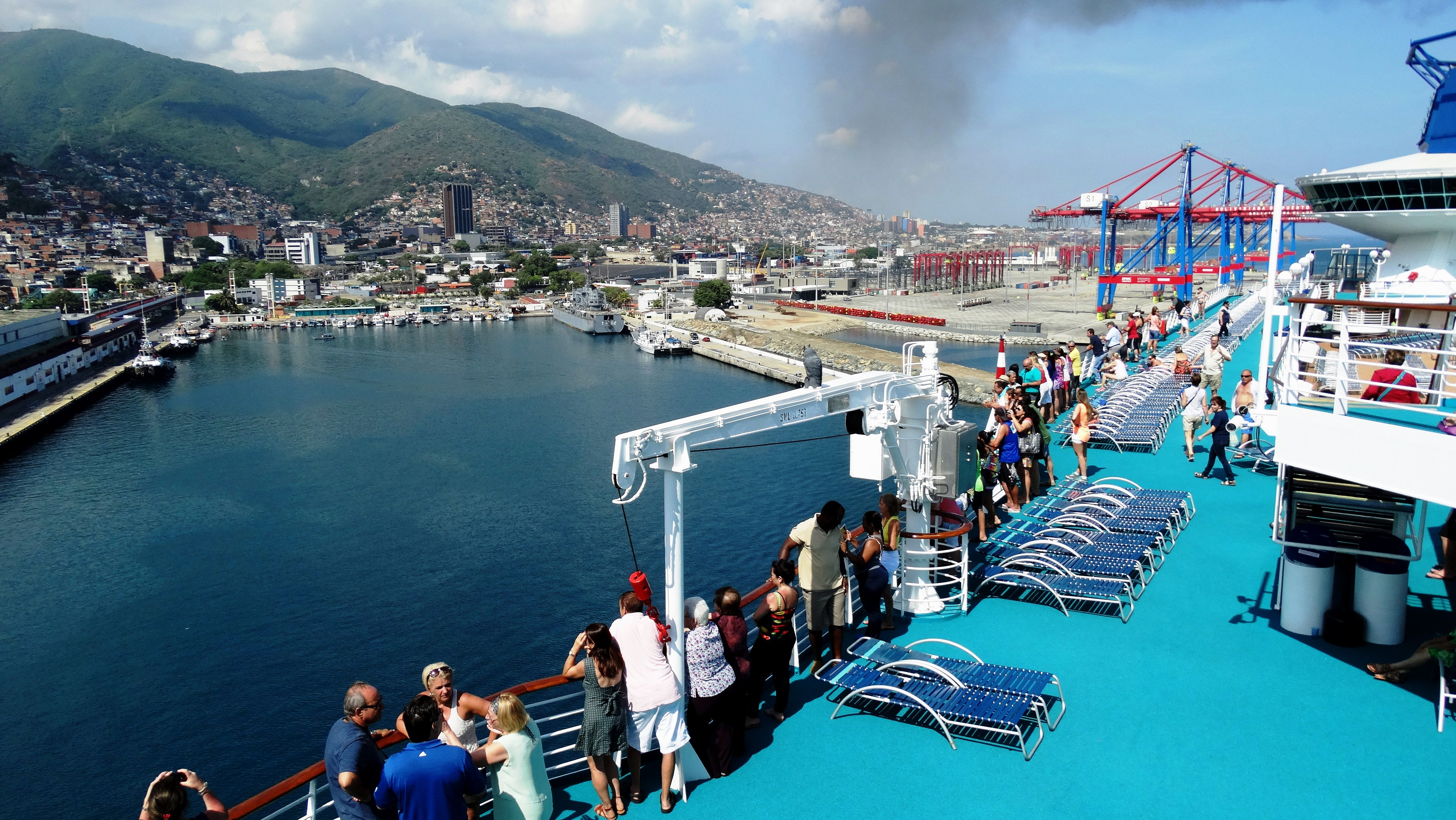 Puerto de La Guaira in Venezuela, taken from MS Monarch.